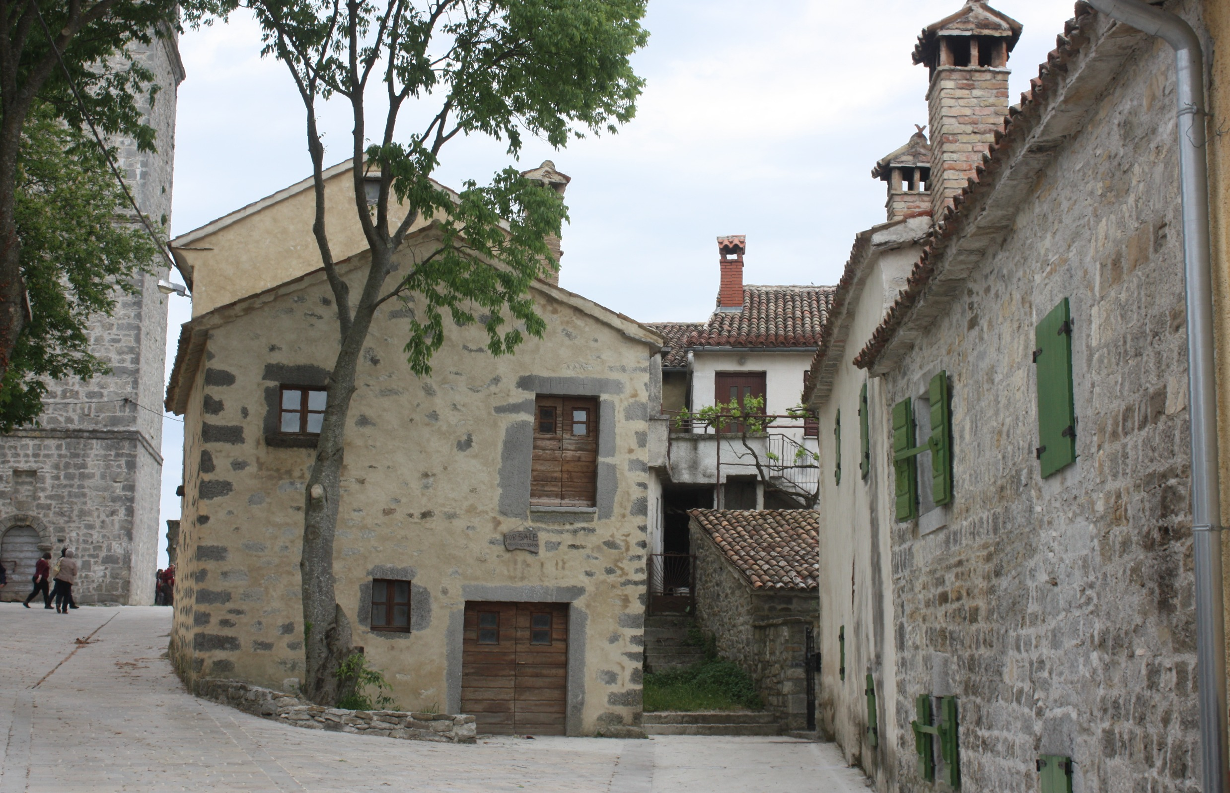 Gračišće, idyllic corner